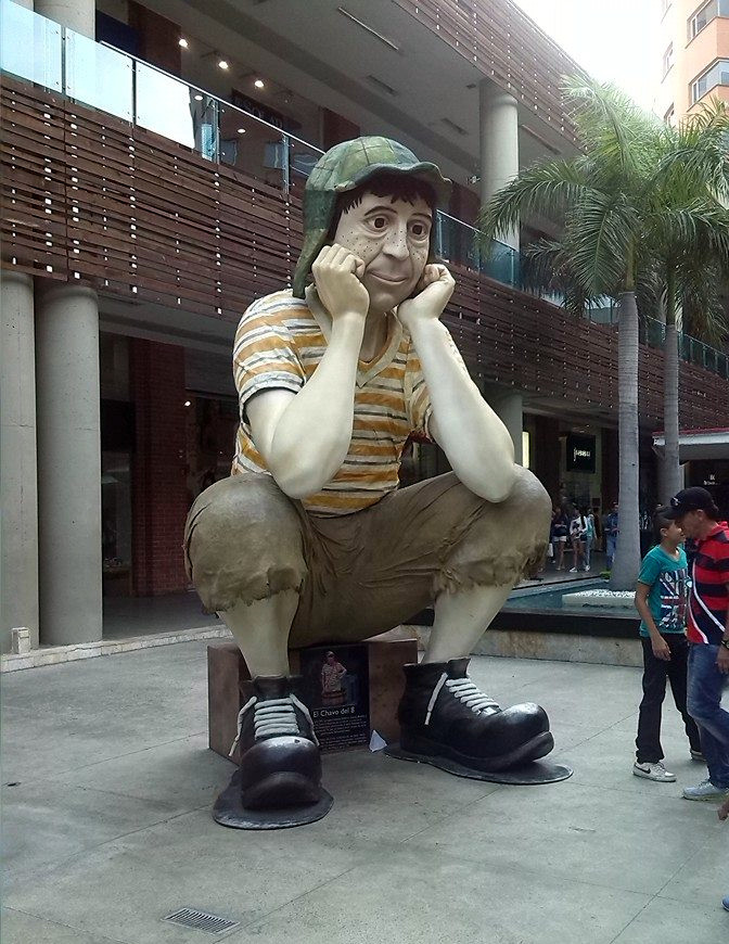 Sculpture of El Chavo del Ocho exhibited at the Chipichape shopping center in the city of Cali